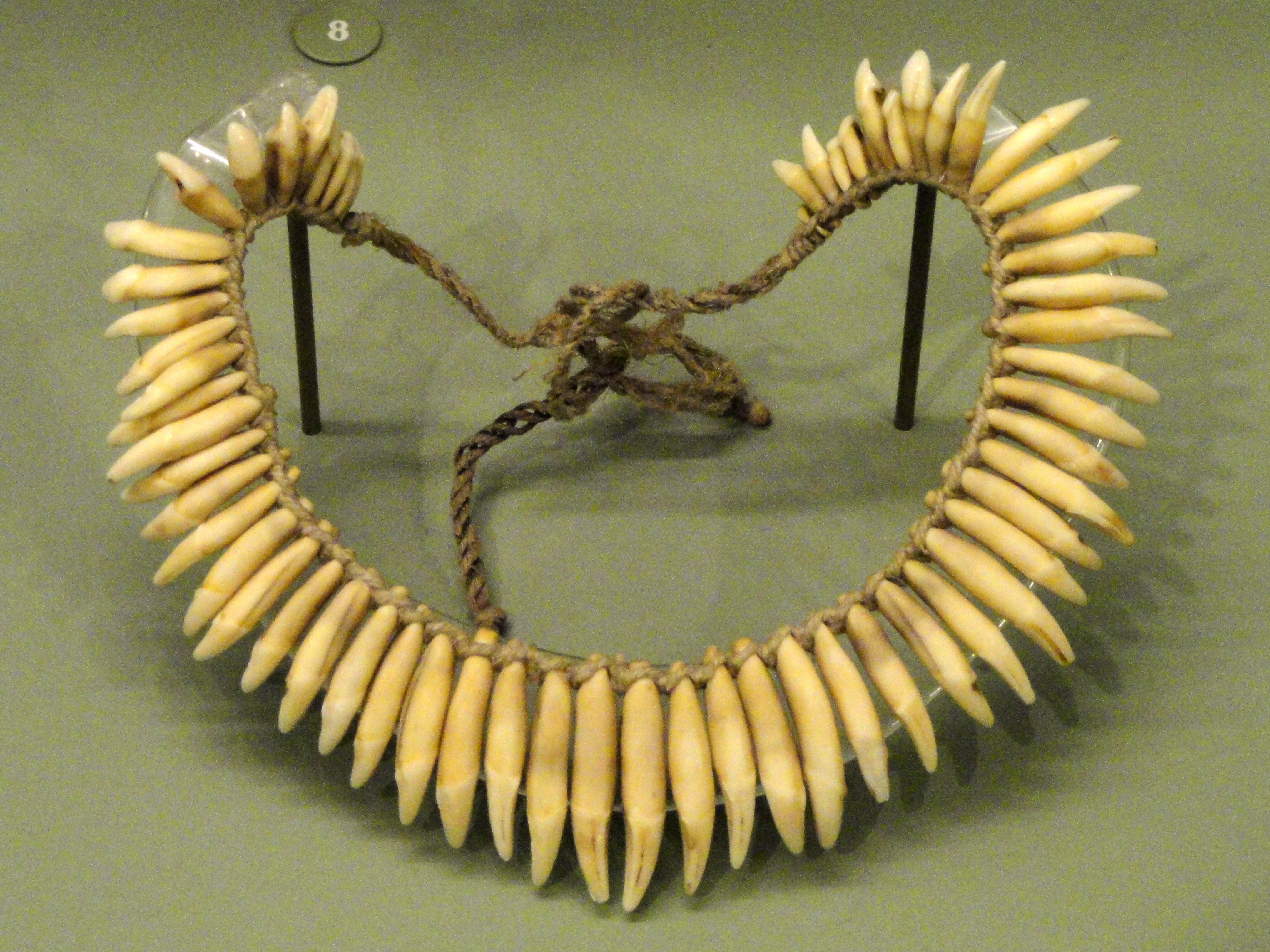 Exhibit in the South American collection of the American Museum of Natural History, Manhattan, New York City, New York, USA.